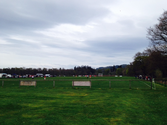 A shot of Balgate Park in Kiltarlity of a shinty game between Lovat and Kinlochshiel